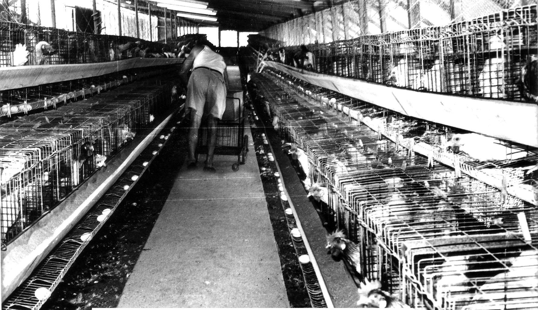 Collecting eggs